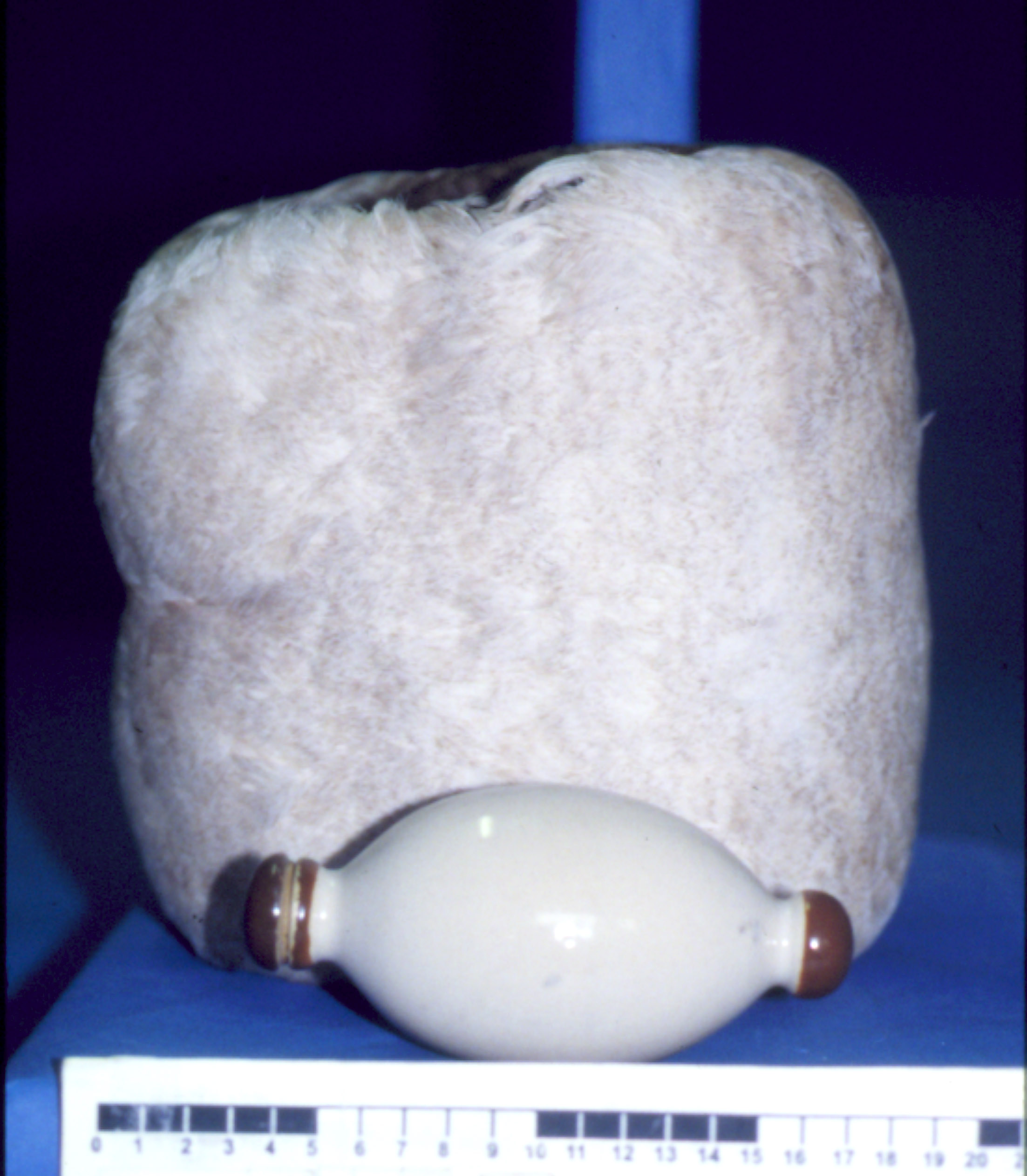 Albatross feather muff [birdskin] and muff warmer (hot water bottle) the muff's outside surface is covered in white and pale brown feathers, padded into a cylindrical shape lined with faded blue-grey silk type fabric. Muff warmer is clear glazed earthenware and in egg shape with brown glazed knob on each end on knob is detachable and acts as a stopper and is threaded to screw in.